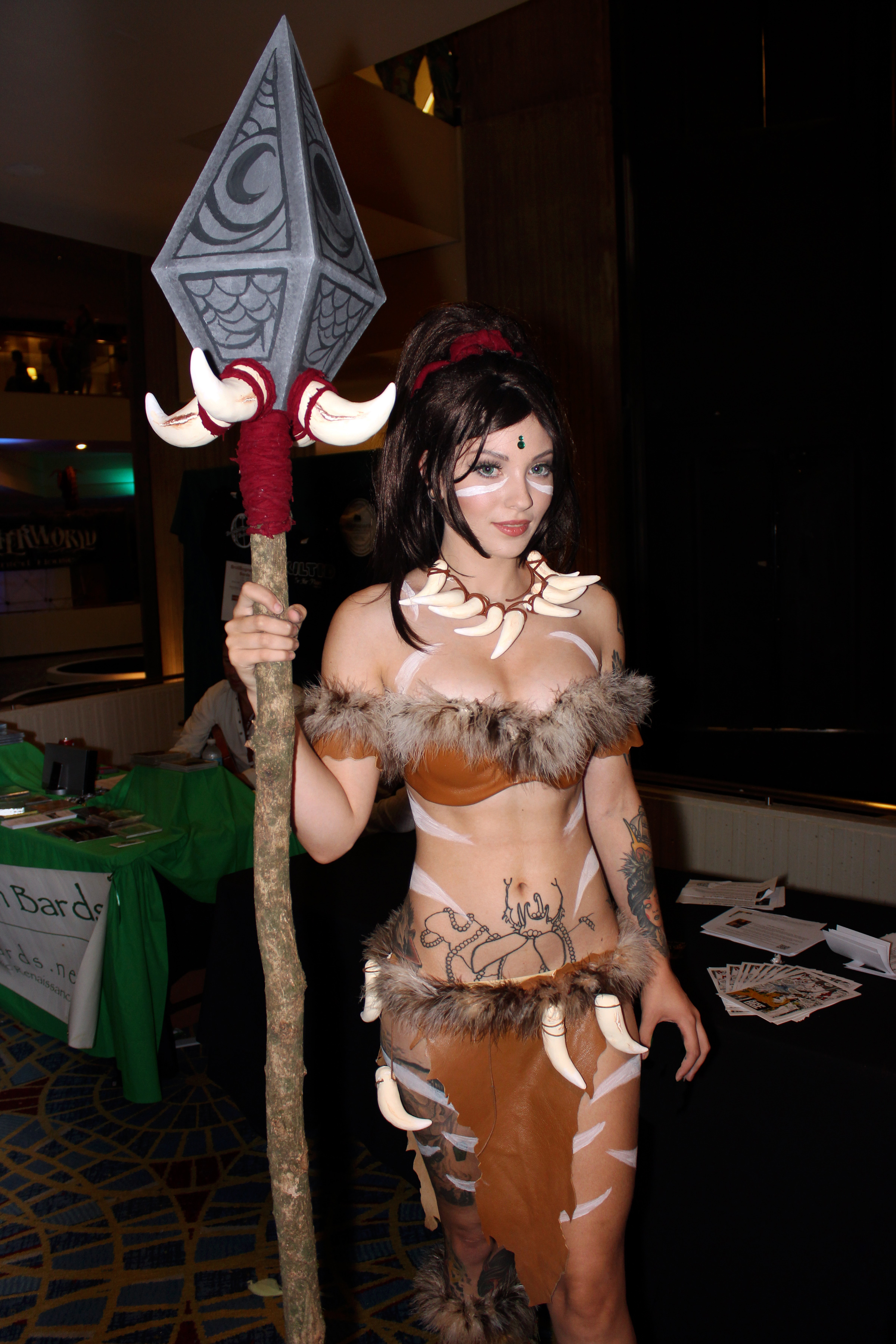 From the "League of Legends" on-line game. UPDATE: Nidalee was featured in Uproxx's Funny, Sexy, and Awesome Cosplay of the Week (09.26.2013). I am humbled that they chose two of my pics for this week's article. And two of my friends, Lucid and Han-pan were in another picture in the slideshow. :-D